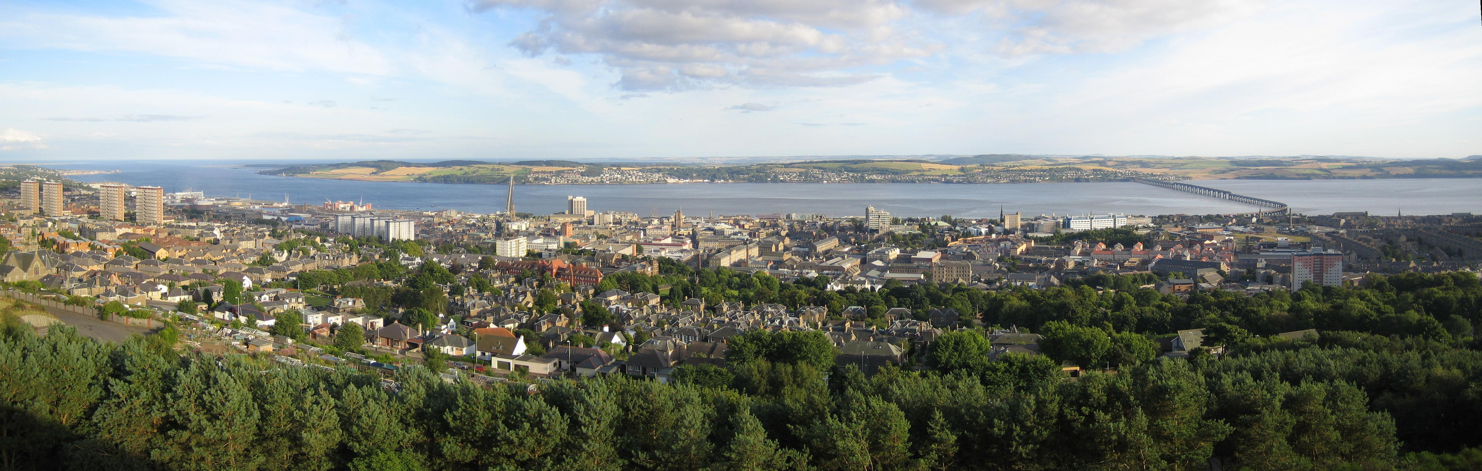 Dundee/Scotland and Firth of Tay, seen from Dundee Law. Image assembled from 4 photos.